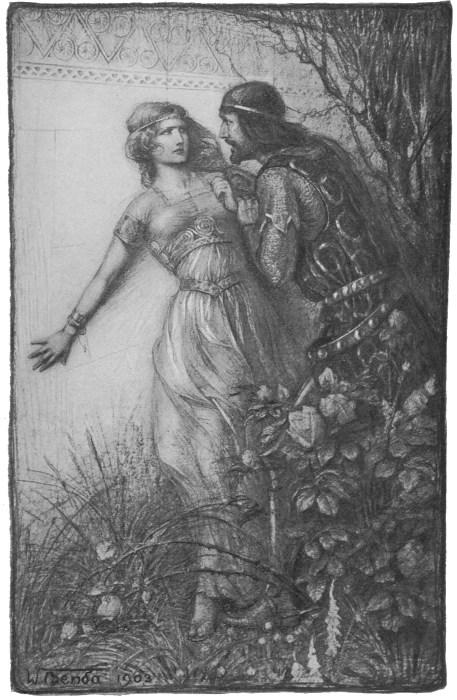 Gorlois violently seizes Igraine. "A sudden madness whirled Gorlois away." from Uther and Igraine, Warwick Deeping, illustrated by "W. Benda"